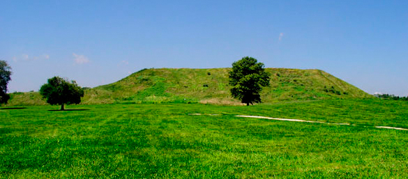 A photo of Monk's Mound at the Cahokia Site in Collinsville.